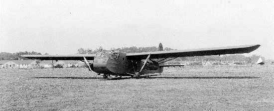 Waco XPG-1 powered glider prototype.